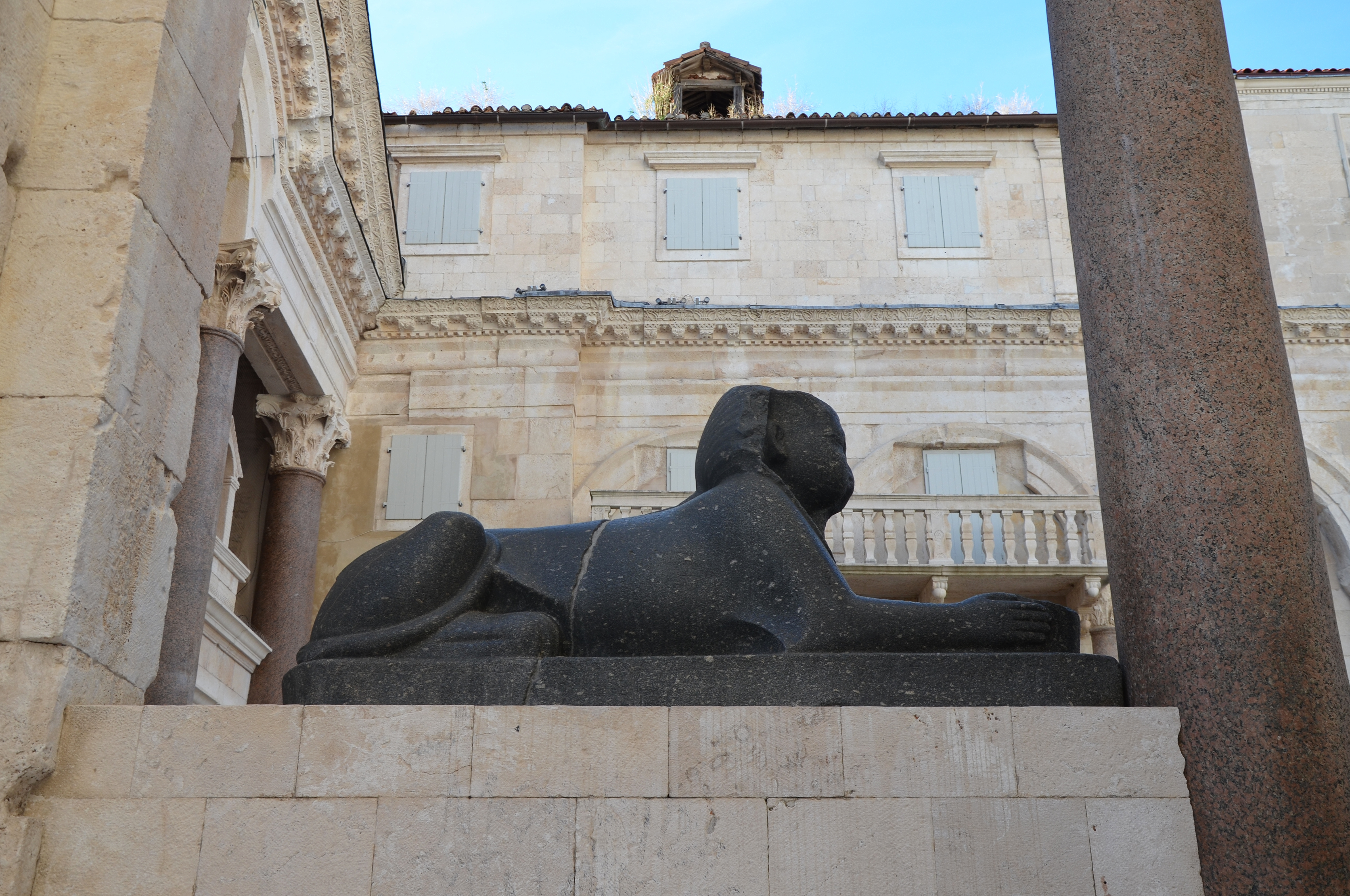 The Palace was decorated with numerous 3500 year old granite sphinxes, originating from the site of Egyptian Pharaoh Thutmose III. Only three have survived the centuries. One is still located on the Peristyle, the second sits headless in front of Jupiter's temple, and a third is in the city museum.